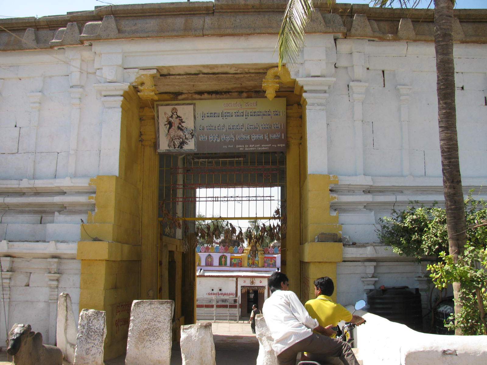 Kuknur-Temple Gate